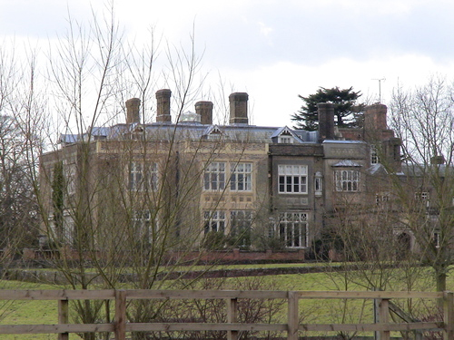 Munden House Munden House the home of The Hon. Henry Holland-Hibbert - Lord of the Manor of Bricket Wood Common.Seen in the Endeavour episode "Girl" (2013).